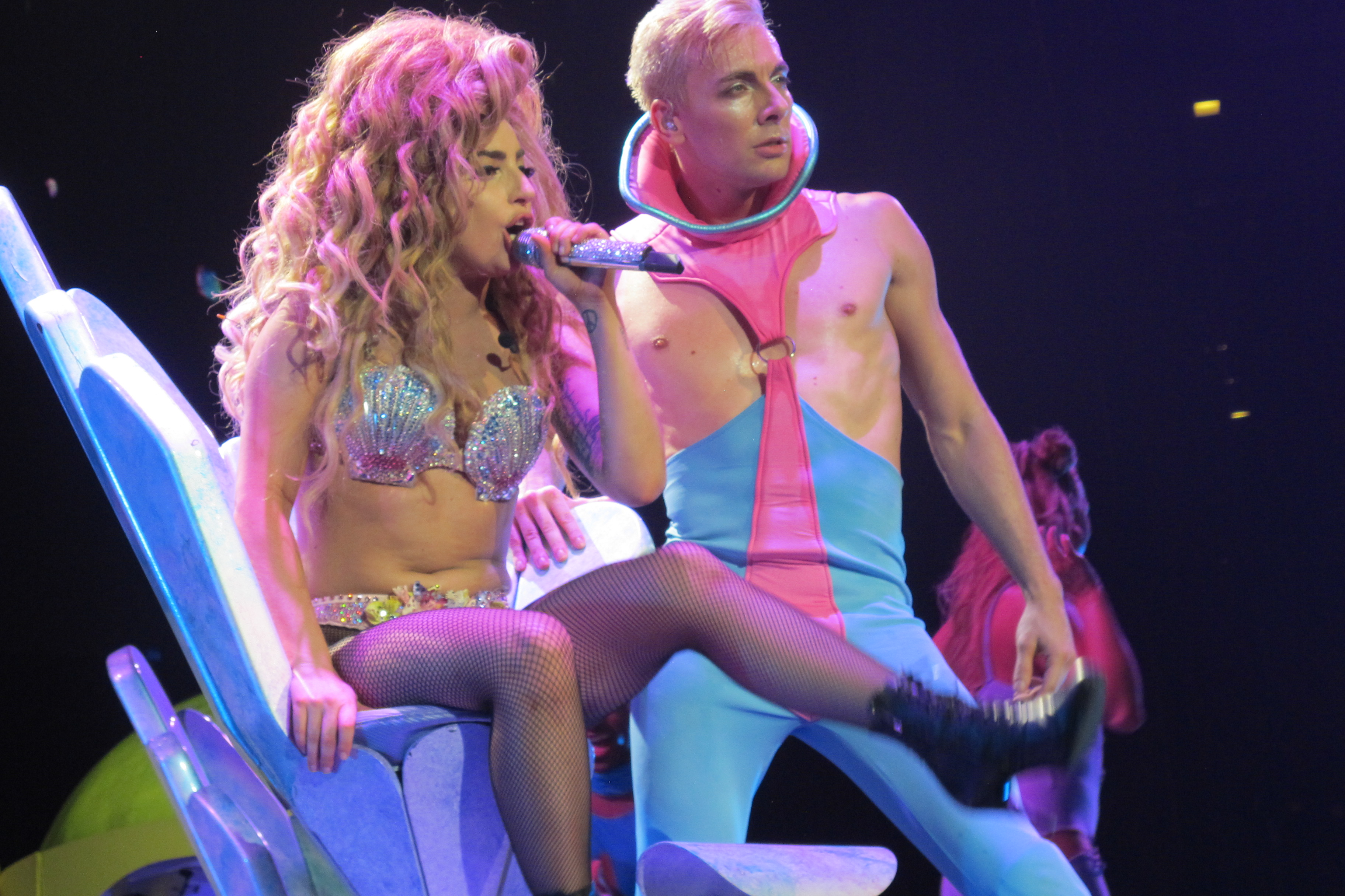 IMG_8232 Lady Gaga performing at ArtRave: The Artpop Ball of San Diego